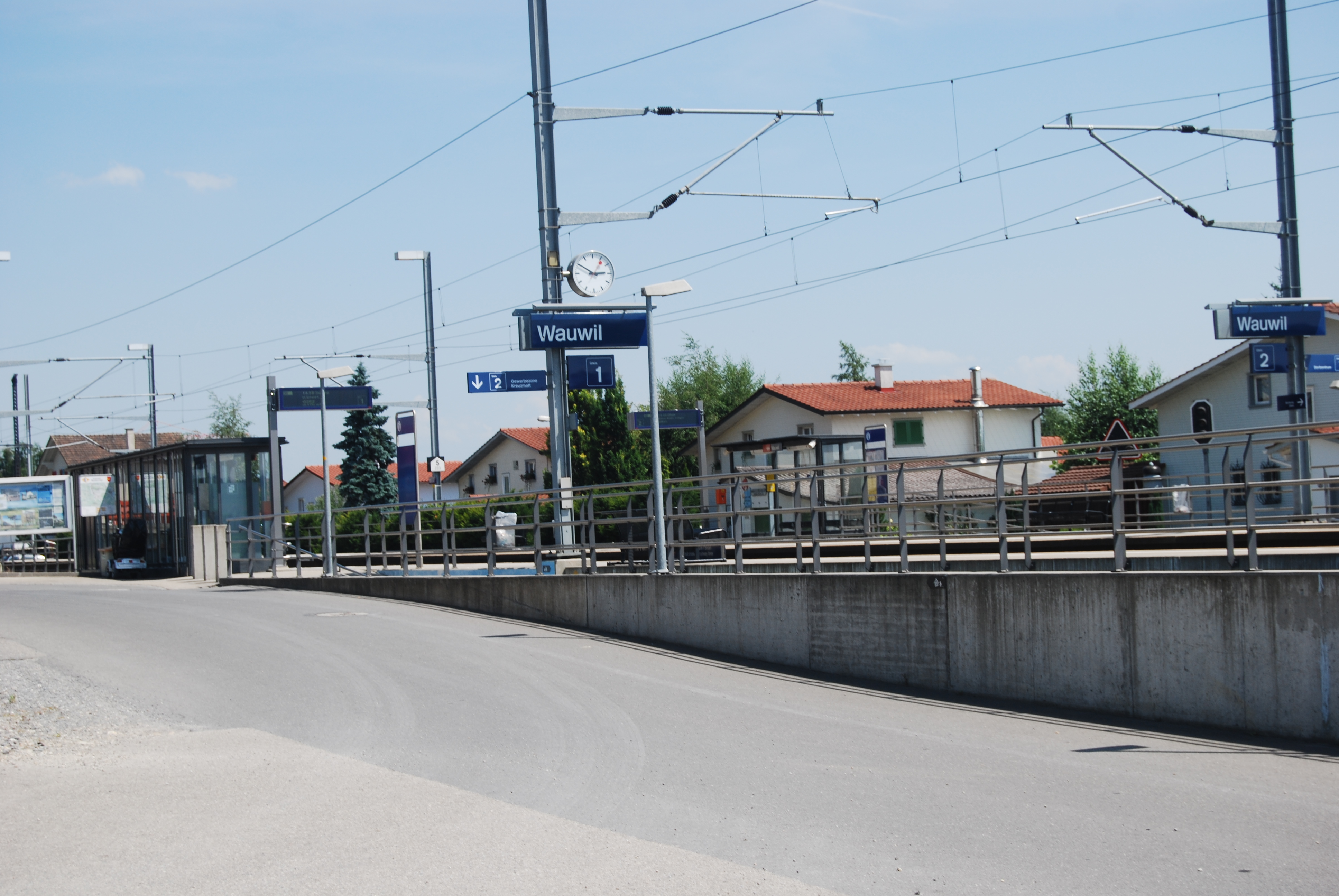 Train station of Wauwil, canton of Luzern, SwitzerlandEsperanto: Stacidomo de Wauwil, Kantono Lucerno, Svislando